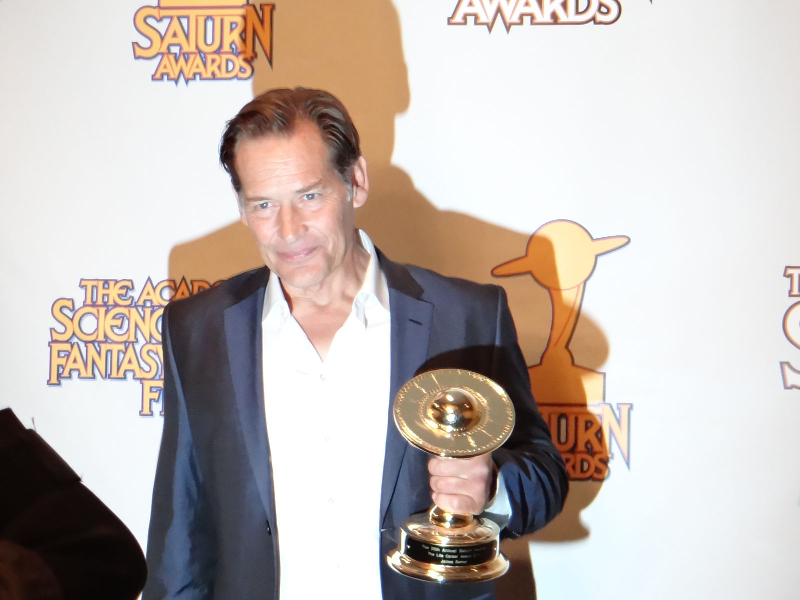 38th Annual Saturn Awards - James Remar from Dexter